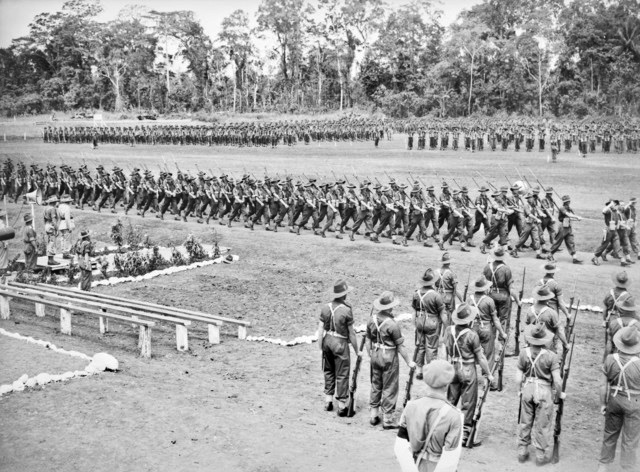 Soldiers from the 29th Brigade on parade around Lae, March 1944. The 15th Battalion is on the right, in the background.